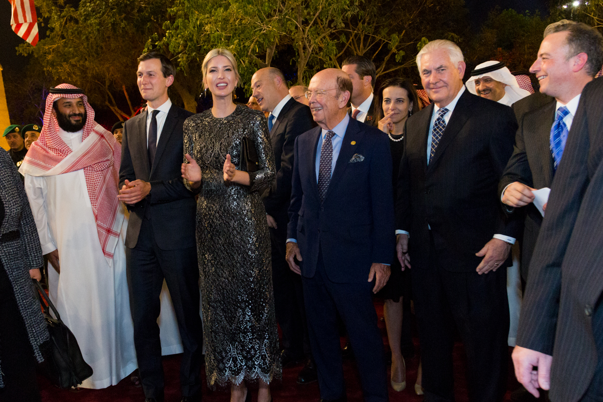 Senior White House Adviser Jared Kushner, and his wife, Assistant to the President Ivanka Trump, U.S. Commerce Secretary Wilbur Ross, U.S. Secretary of State Rex Tillerson, and White House Chief of Staff Reince Priebus are seen as they arrive with President Donald Trump and First Lady Melania Trump to the Murabba Palace as honored guests of King Salman bin Abdulaziz Al Saud of Saudi Arabia, Saturday evening, May 20, 2017, in Riyadh, Saudi Arabia. (Official White House Photo by Shealah Craighead)